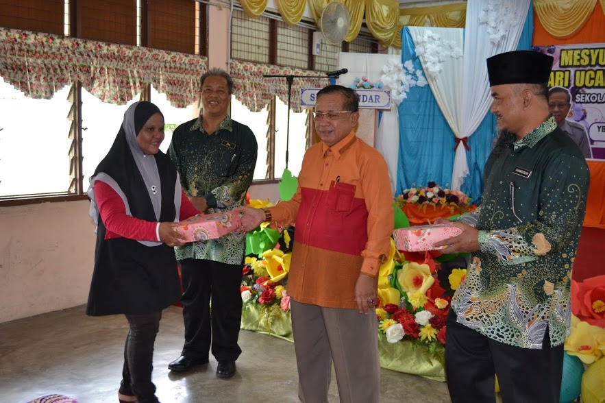 GAMBAR 9